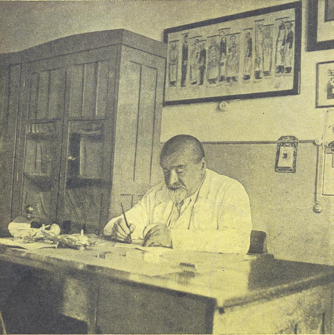 Bulgarian medical doctor Paraskev Stoyanov (1871-1940)